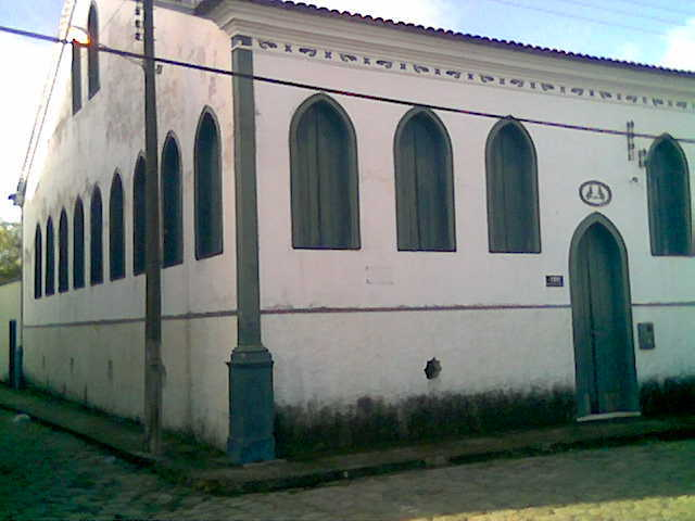 Medeiros' family house.